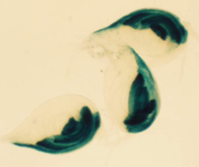 Three imaginal discs that will form legs. Taken from Drosophila melanogaster 3rd instar larva. The discs are stained with a hedgehog -protein specific staining, showing the protein's localization.